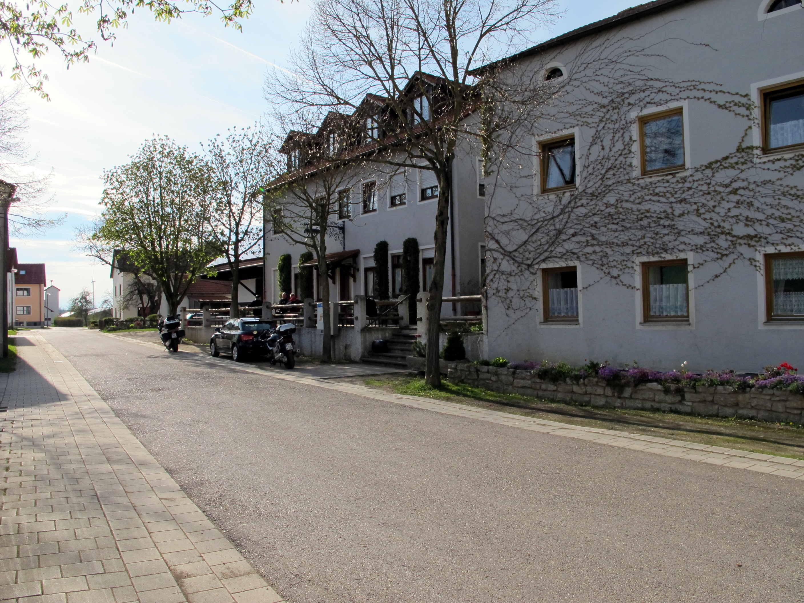 Road, Wachenzell, Pollenfeld, Bavaria, Germany